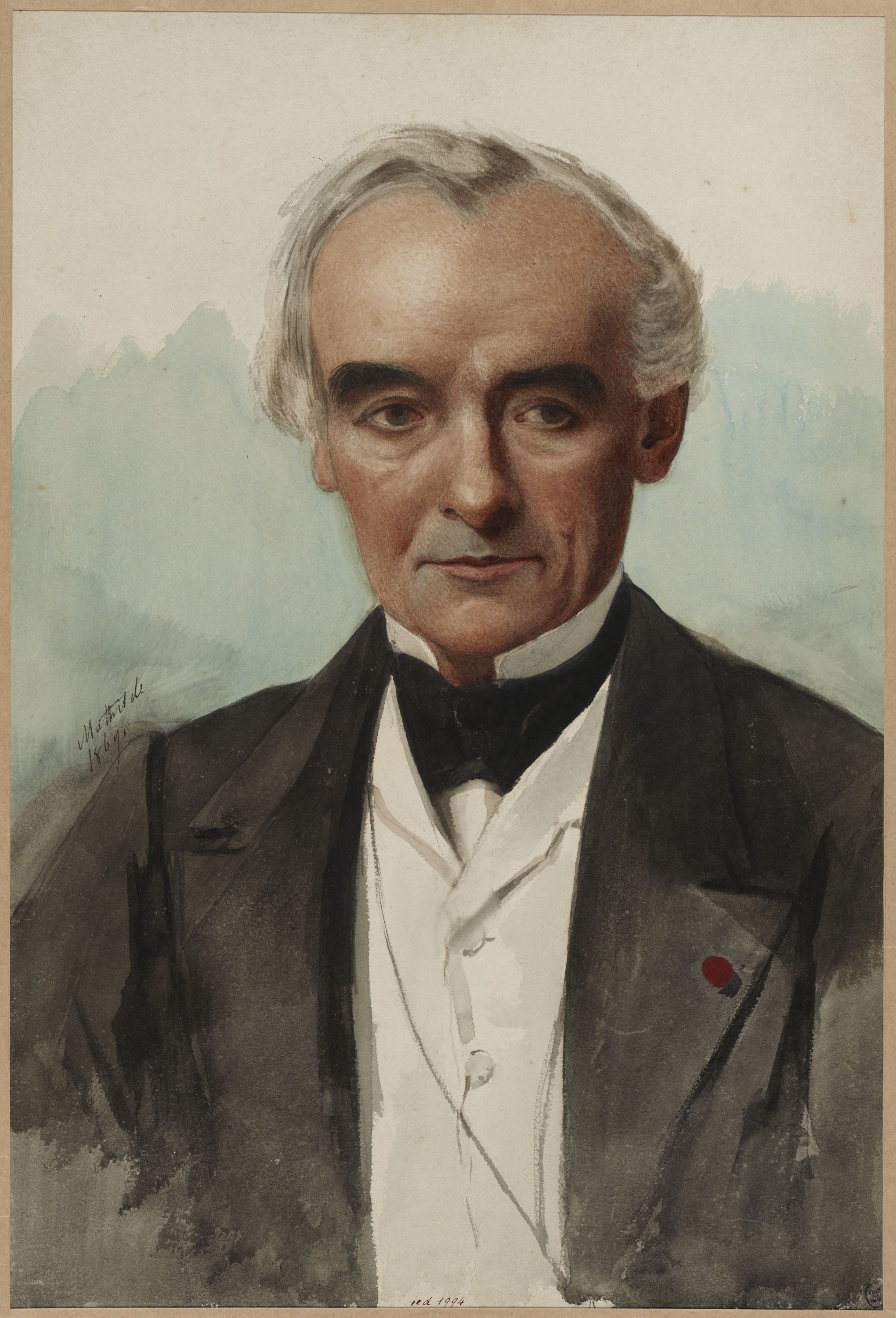 Prosper Mérimée, French writer and historian (1803-1870)